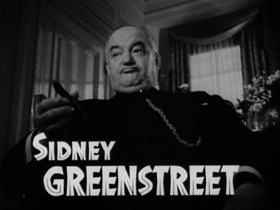 Frame from the 1941 public domain trailer for the Warner Bros. film The Maltese Falcon showing Sydney Greenstreet with his name in type.